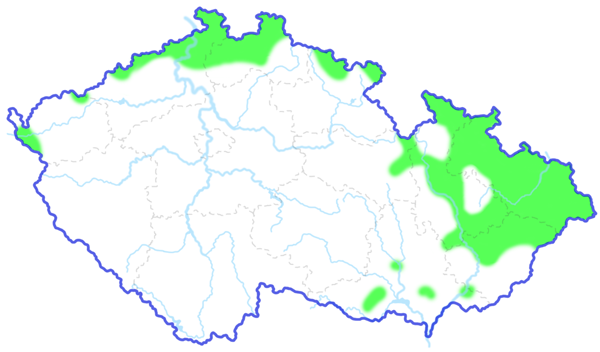 Distribution of Striped Field Mouse (Apodemus agrarius) in the Czech Republic